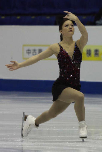 Diane Szmiett at the 2008-2009 Junior Grand Prix Final.